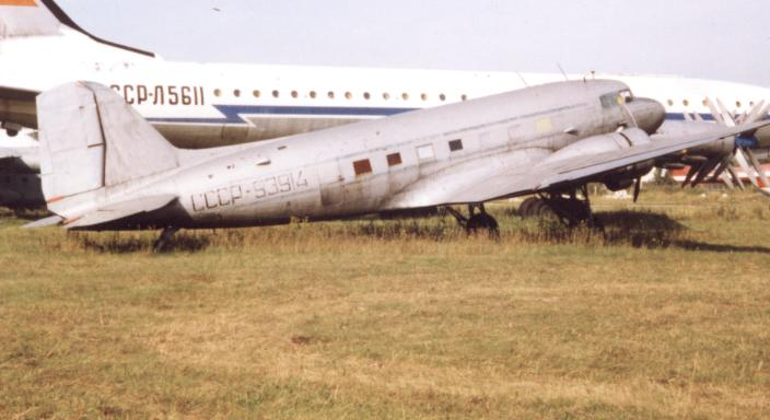 Lisunov Li-2 CCCP-93914 of Aeroflot at Monino near Moscow